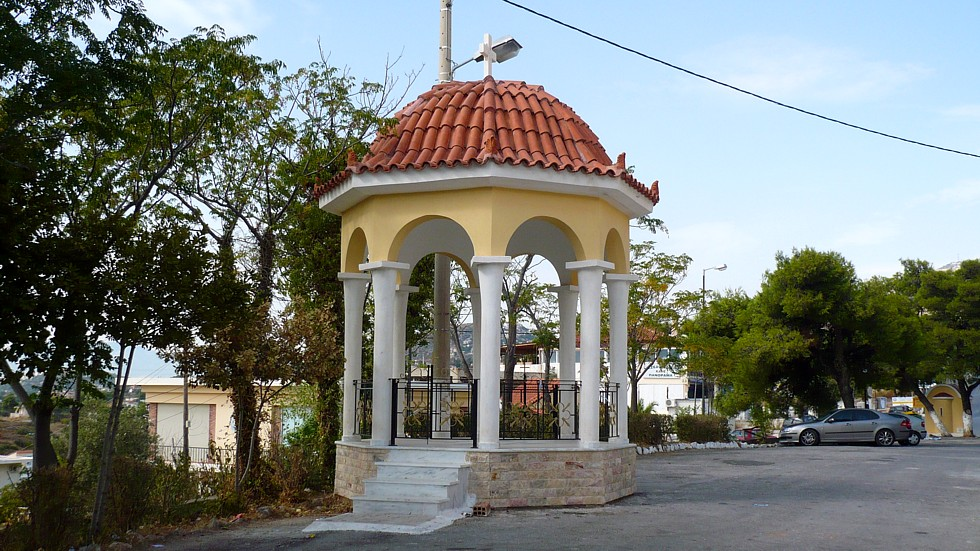 Anthoussa